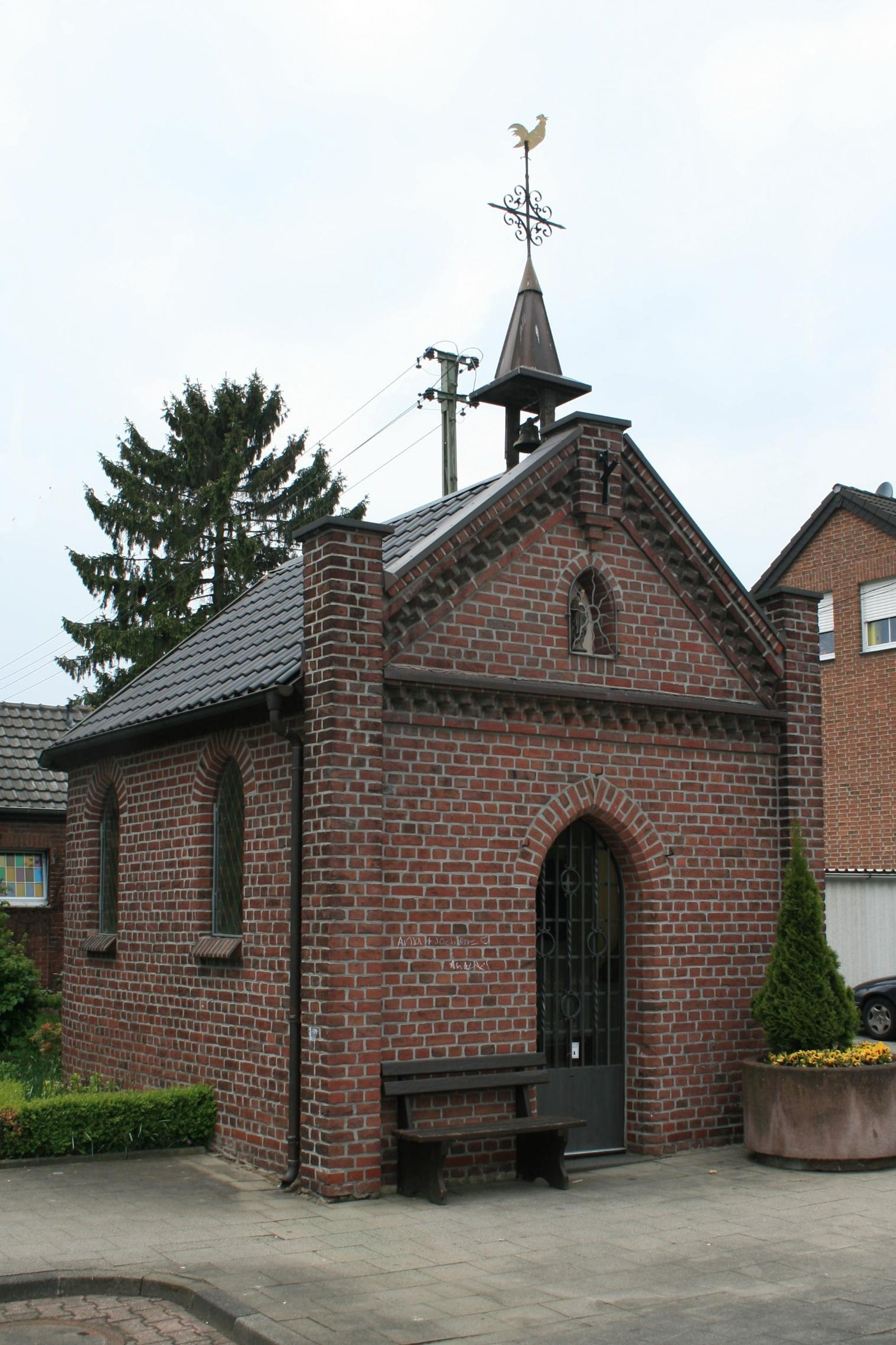 Cultural heritage monument No. D 007 in Mönchengladbach